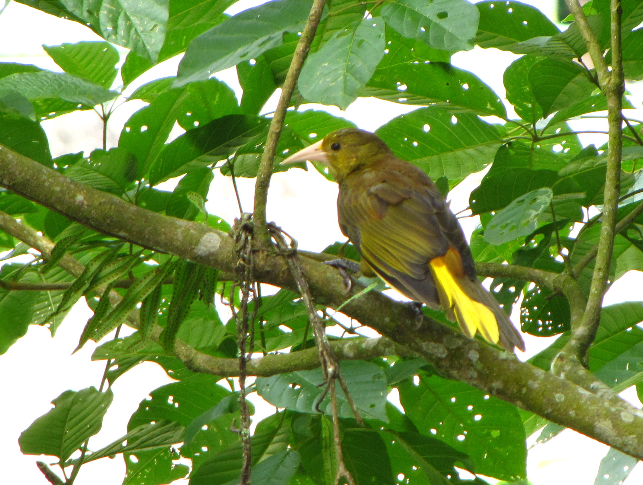 A Russet-backed Oropendola at Rancho Grande Biological Station, Henri Pittier National Park, Aragua State, Venezuela.